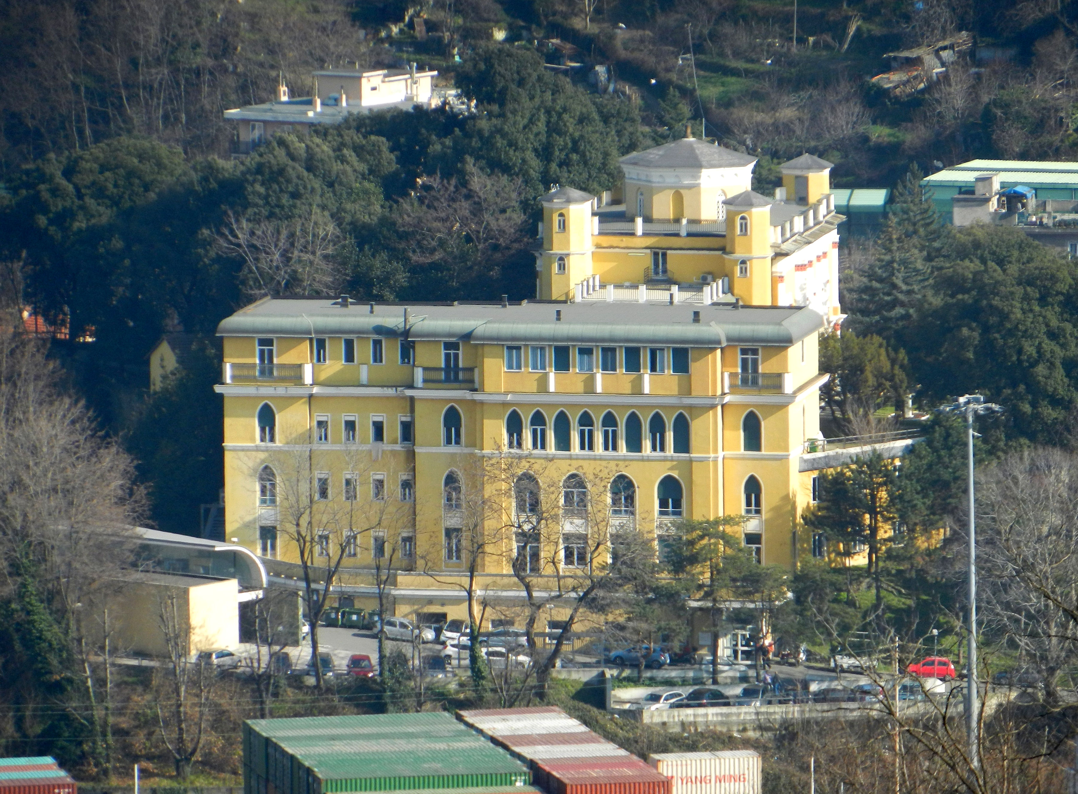 Genoa, Italy, the castle of Bolzaneto